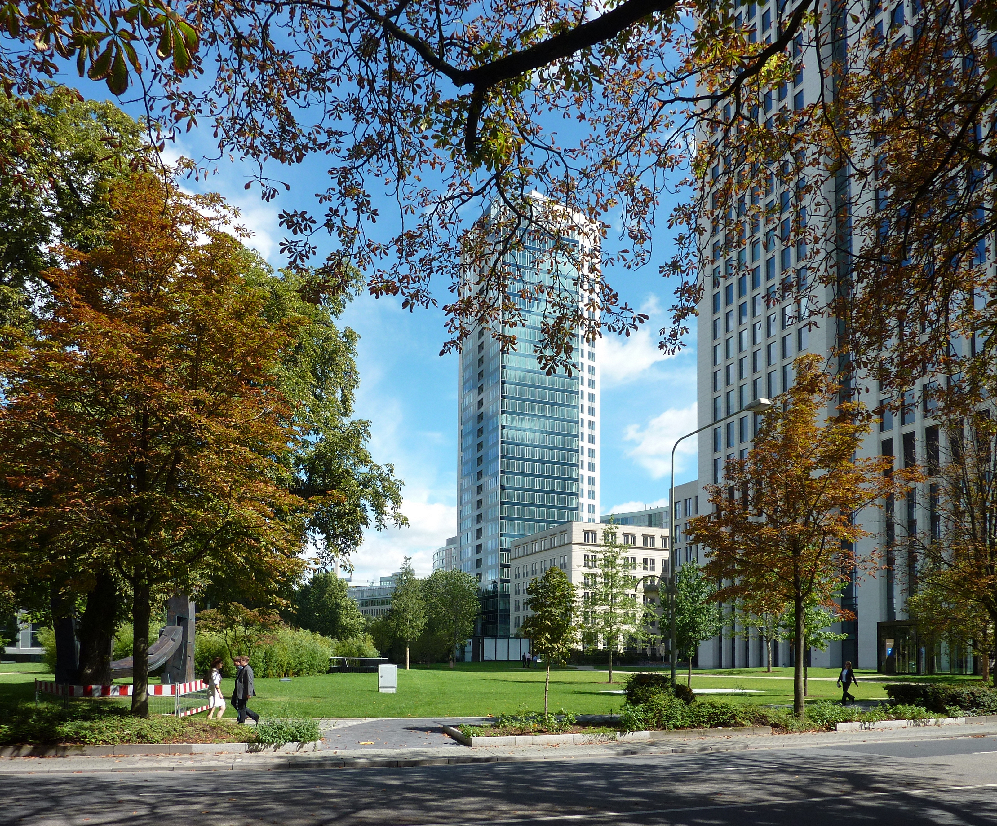 Frankfurt/M., Germany: The Rothschild Park in the Westend quarter, viewn from south. In the foreground Bockenheimer Landstraße, in the center the office building Park Tower. On the far right the Opernturm (“Opera House Tower”), also an office building, finished in 2009